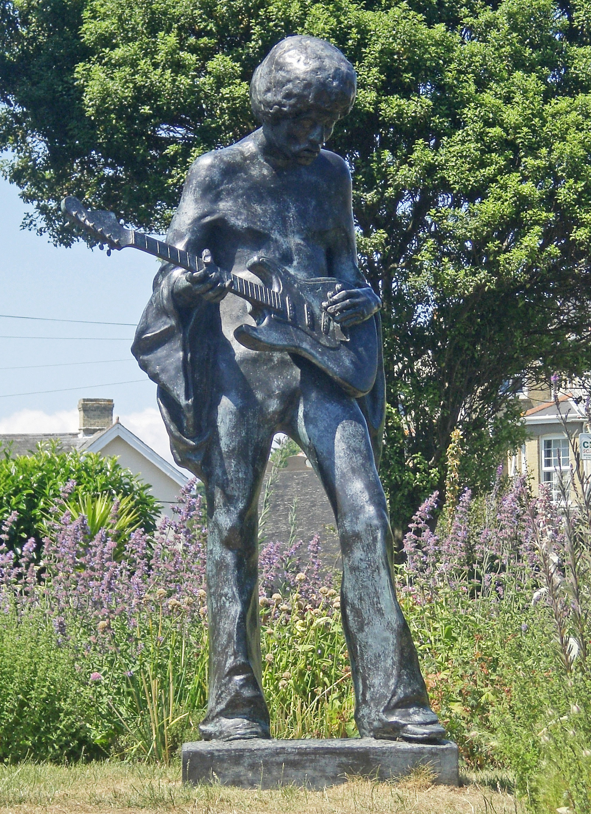 A statue of Jimi Hendrix outside Dimbola Lodge in Freshwater on the Isle of Wight.